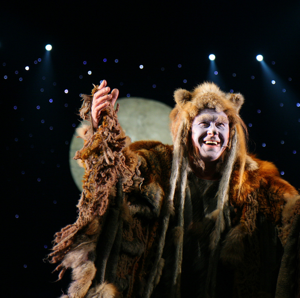 Zbigniew Macias as Old Deuteronomy in the musical "Cats" in Roma Musical Theatre in Warsaw.